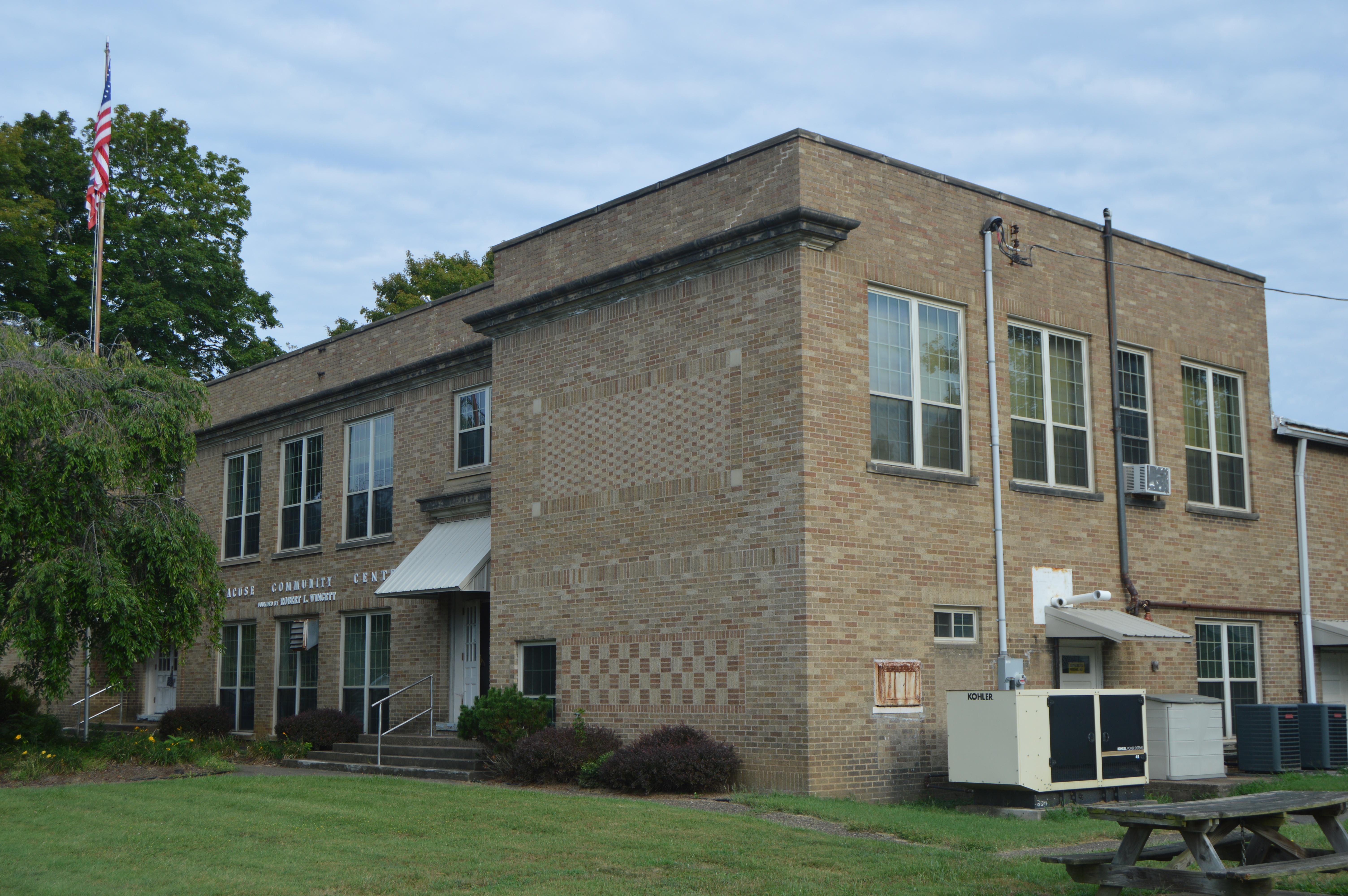 Front of the former Syracuse Elementary School (now a community center), located on Seventh Street in Syracuse, Ohio, United States. It was built in 1930.